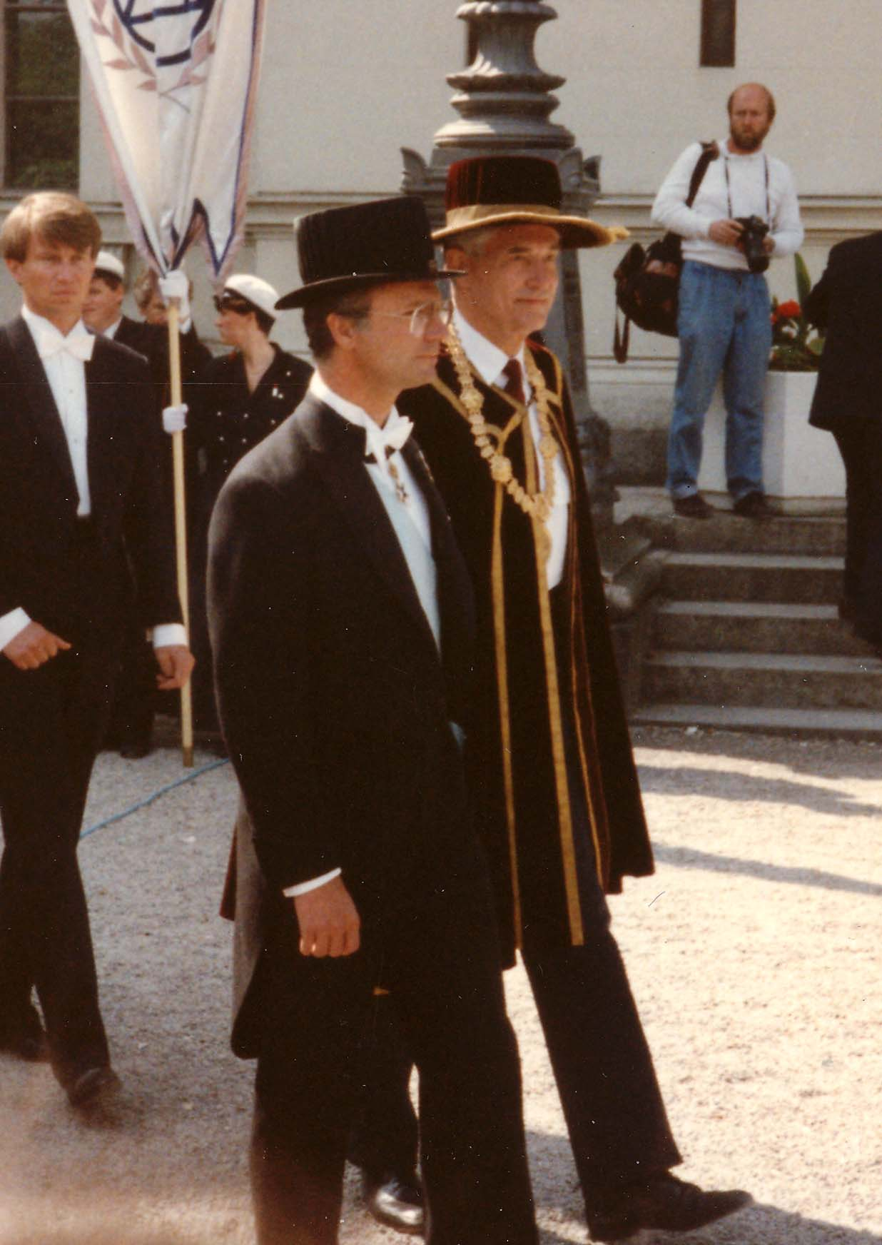 Carl XVI Gustaf (born 1946), king of Sweden since 1973, visiting a conferment of doctors' degrees at the University of Lund in 1990, To the right of the king is the vice chancellor of the university at the time, professor Håkan Westling. Photographer: Fredrik Tersmeden, Lund, Sweden.